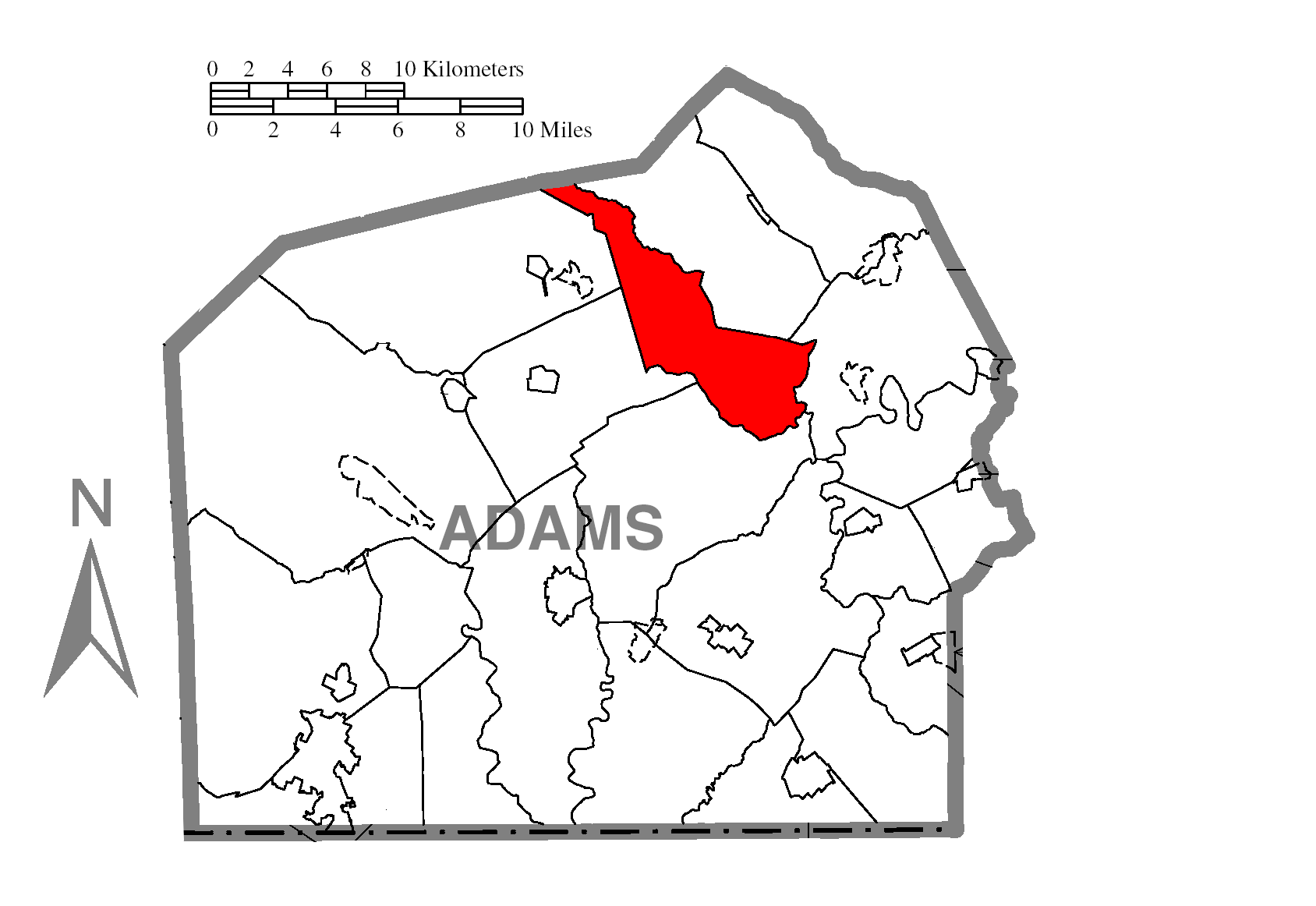 A map of Adams County showing Tyrone, Pennsylvania (alternate) highlighted on the map.